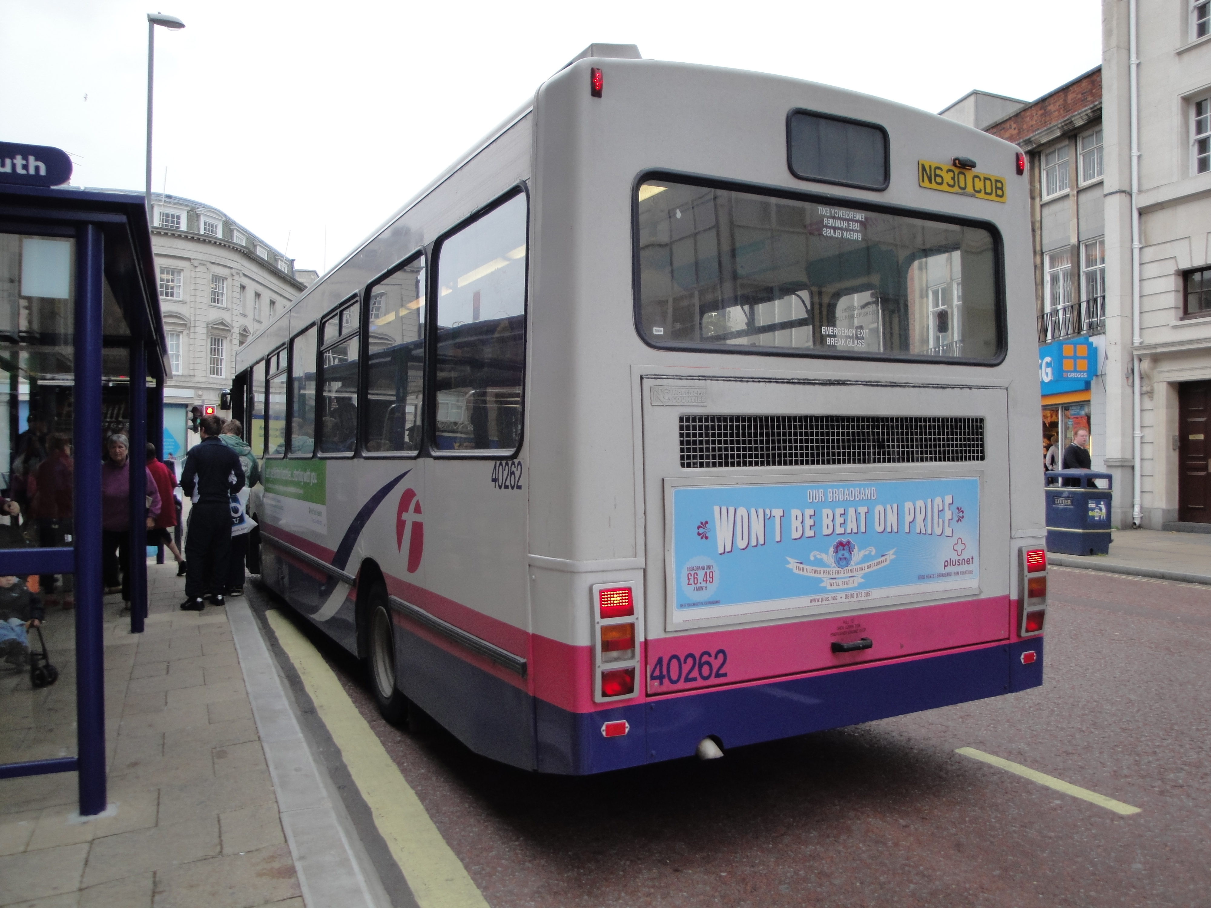 The rear of First Hampshire & Dorset 40262 (N630 CDB), a Dennis Dart/Northern Counties Paladin, in Isambard Brunell Road, Portsmouth, Hampshire on route 1A.